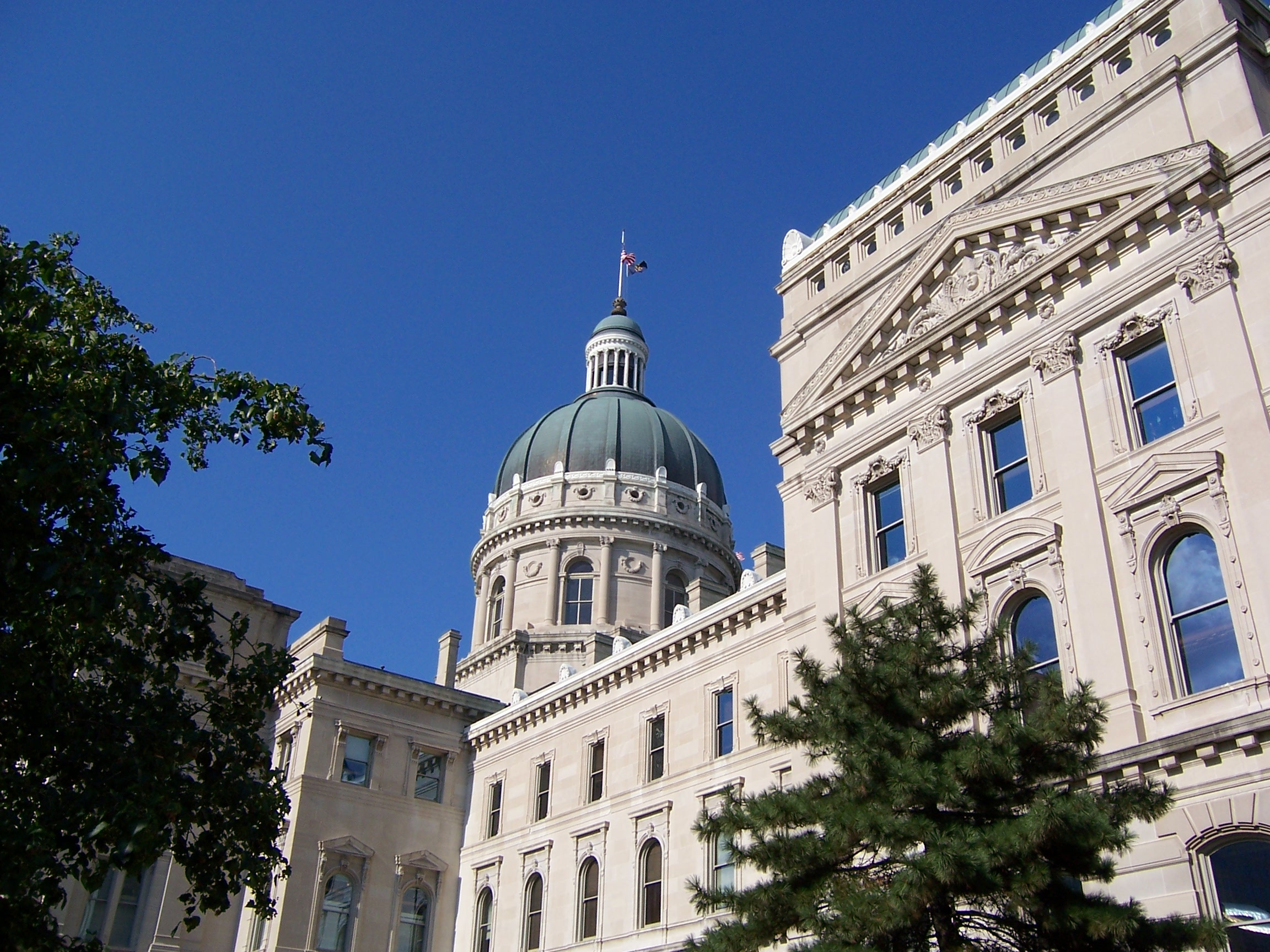 Picture of the Indiana State House; Indianapolis, IN; 2006 Please attribute the work, per copyright.